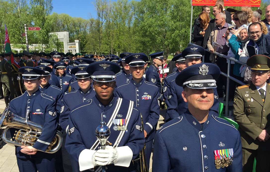 Led by U.S. Air Force Lt. Col. Mike Mench, U.S. Air Forces in Europe Band commander, and Staff Sgt. Chris Jackson, USAFE Band drum major, the USAFE Band gather at a staging point before marching in the World War II Victory Day Parade in Minsk, Belarus, May 9, 2015. U.S. Air Force photo by Master Sgt. Brian Bahret